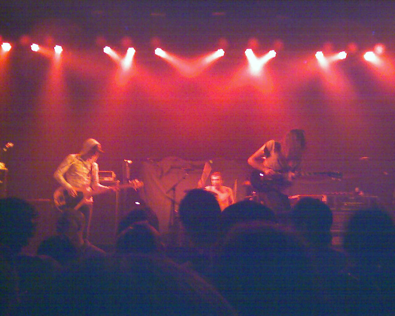 The Fall of Troy performing in Grand Rapids, Michigan at the Orbit Room.